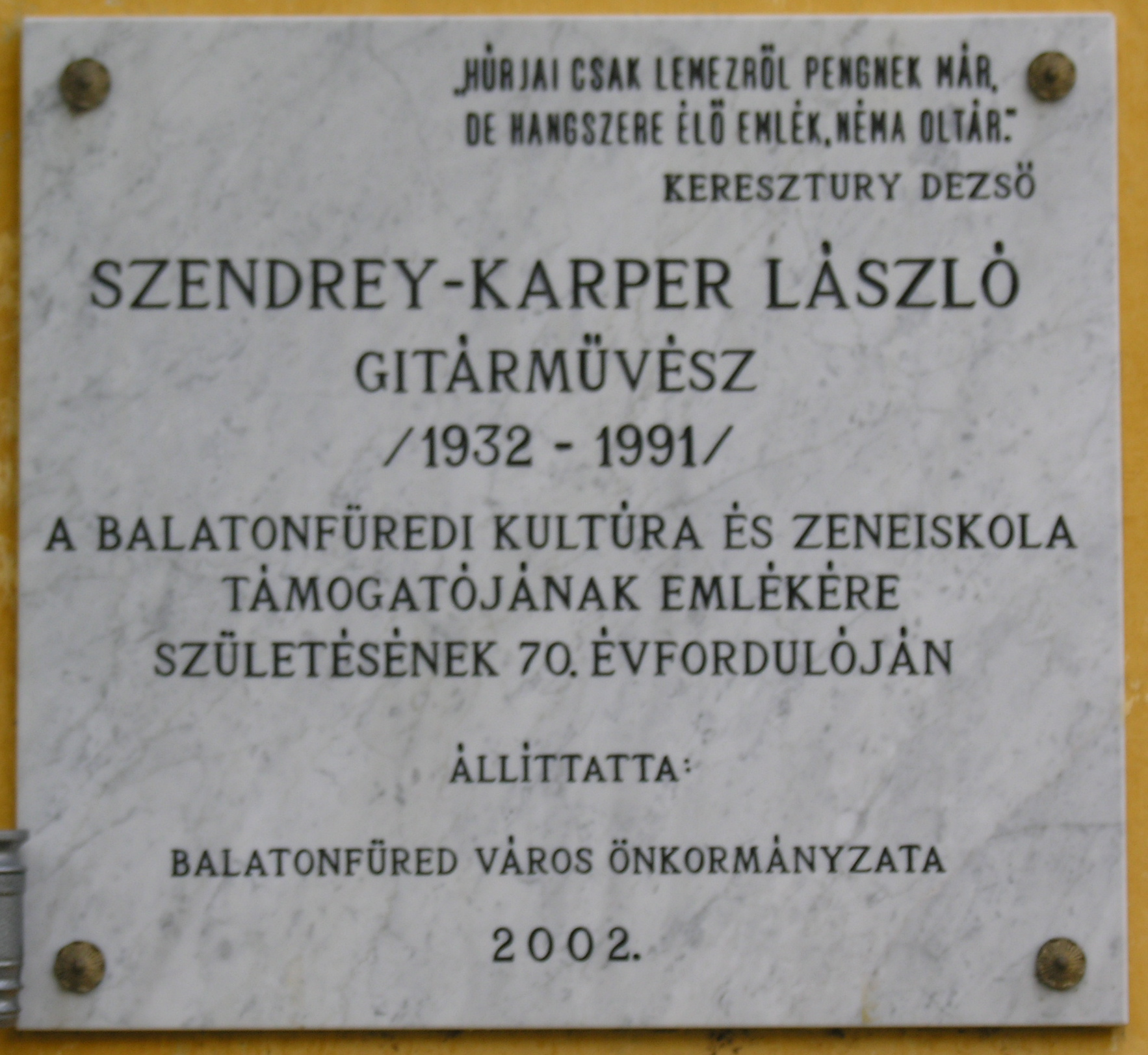 Commemorative plaque of László Szendrey-Karper in Balatonfüred, Ady Endre Street No 13